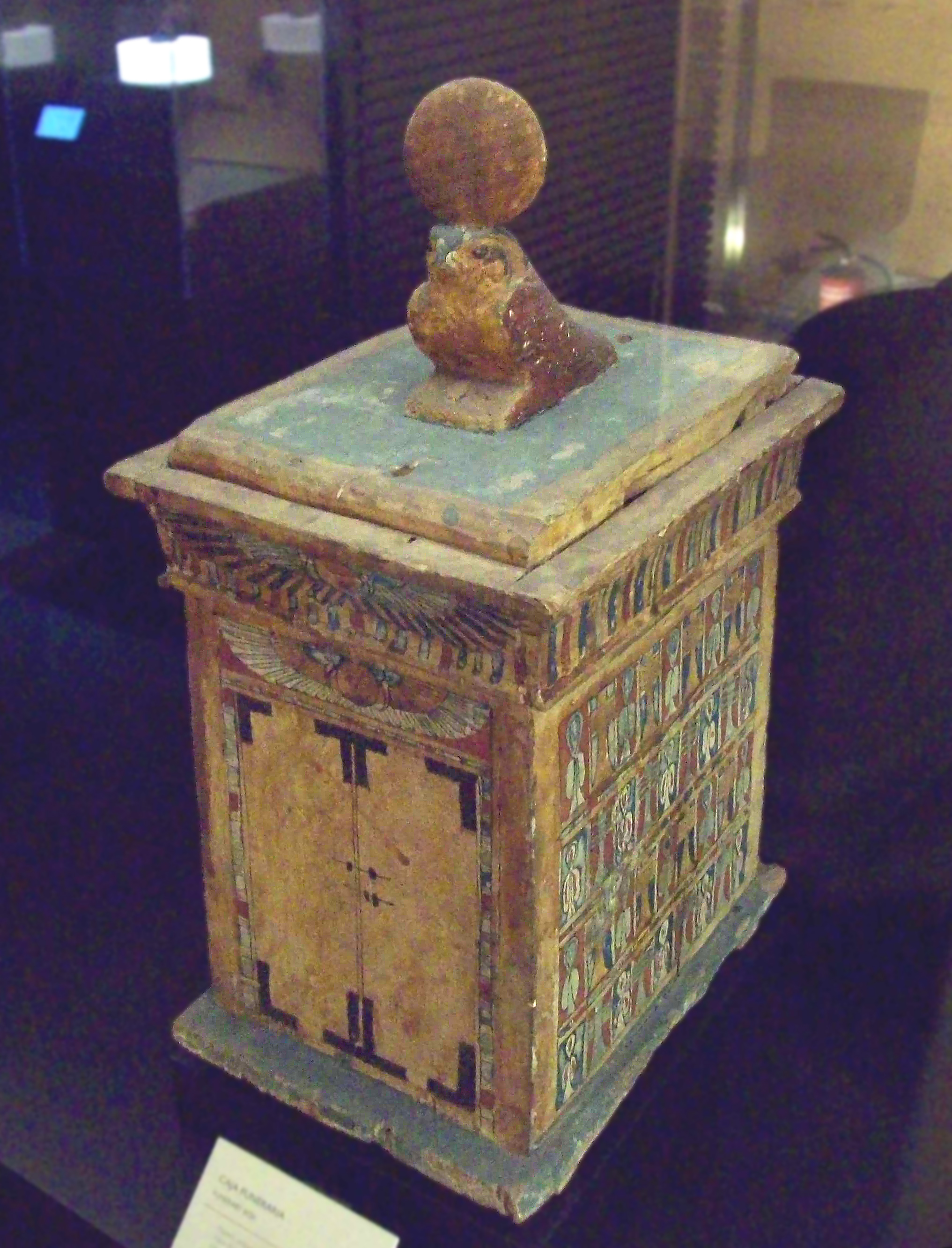 Naos-shaped Egyptian funerary box, possibly used to contain entrails. Made in Asyut in the Late Period. At the front part, there are painted a door with locks and two winged suns (Behedety). At the other sides, symbols of Isis and Osiris as protective deities for the deceased. At the top, Seker in the form of a falcon and with the solar disc on him.